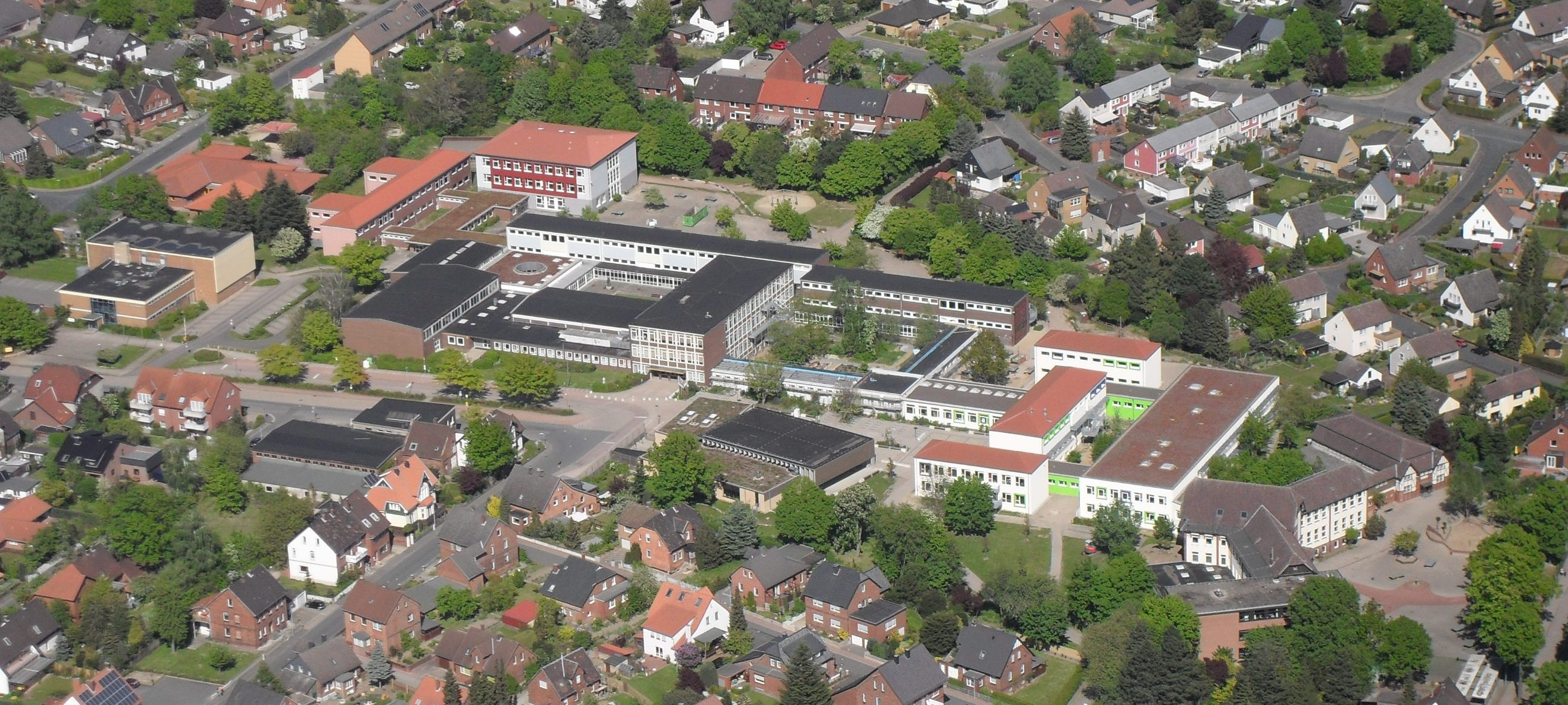 Aerial View of Center of Public Schools in Groß Ilsede